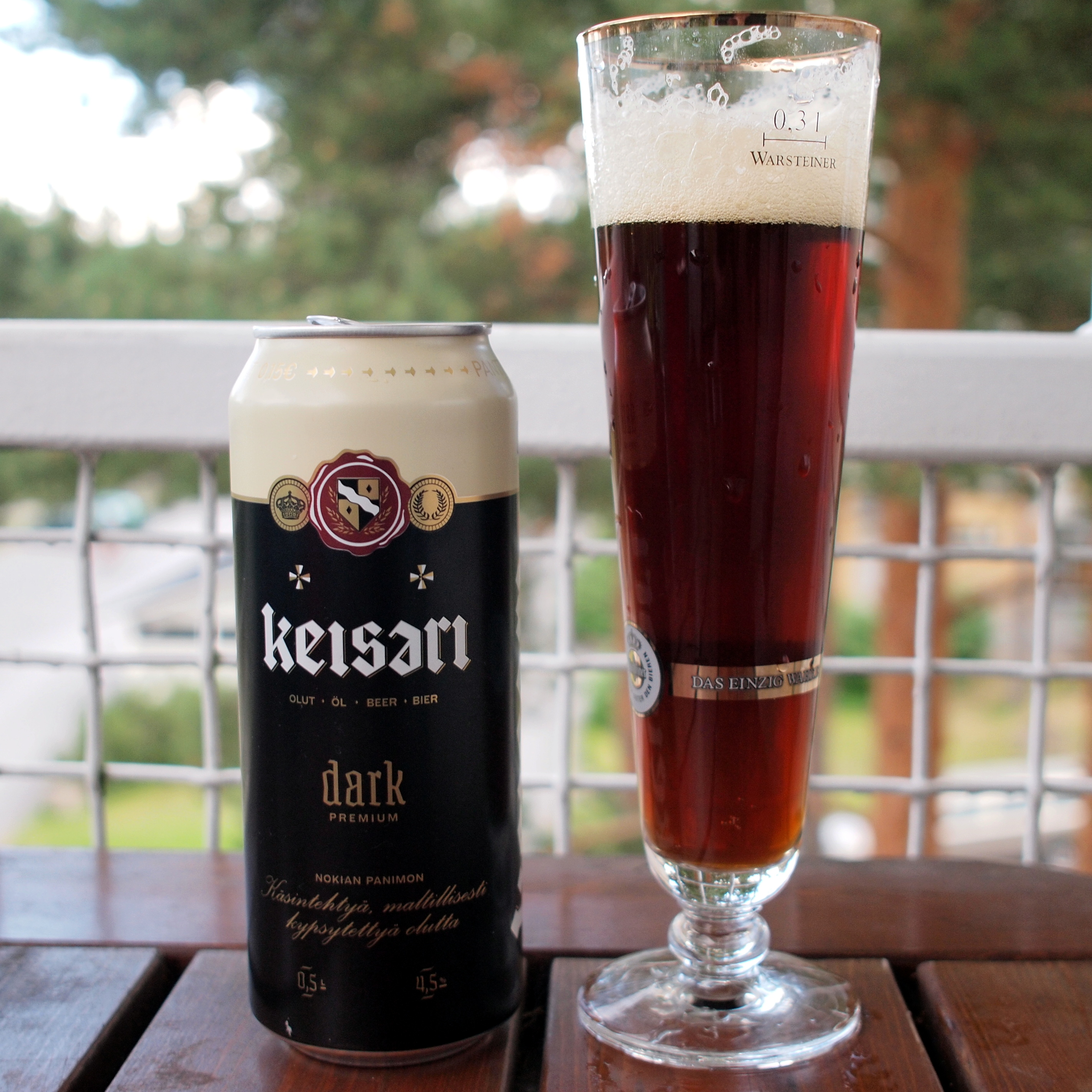 Nokian Keisari Dark is a Bohemian style dark lager. Alcohol content 4.5 vol-%, gravity 11.4 mass-%, colour 60 EBC, bitterness 30 EBU.